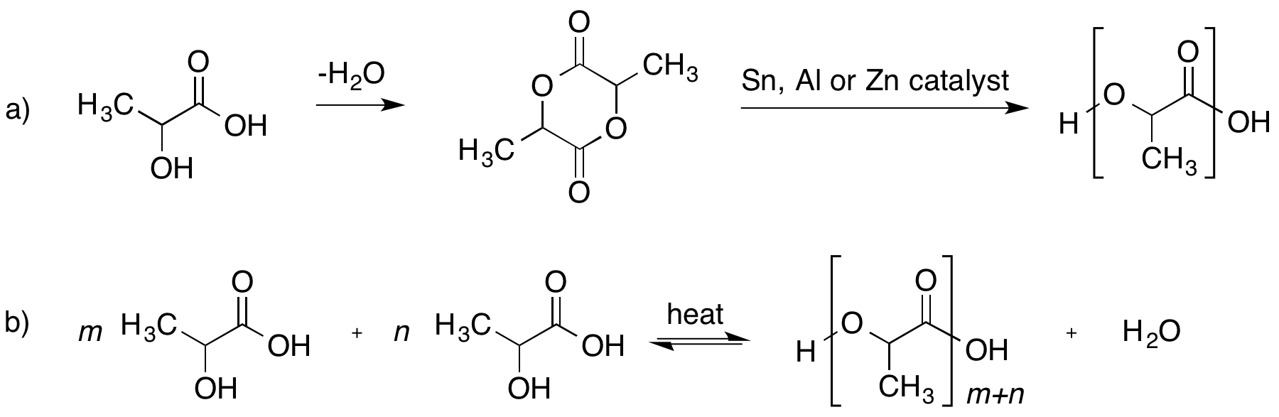 a) ring-opening polymerization of dimeric lactide b) direct condensation of lactic acid